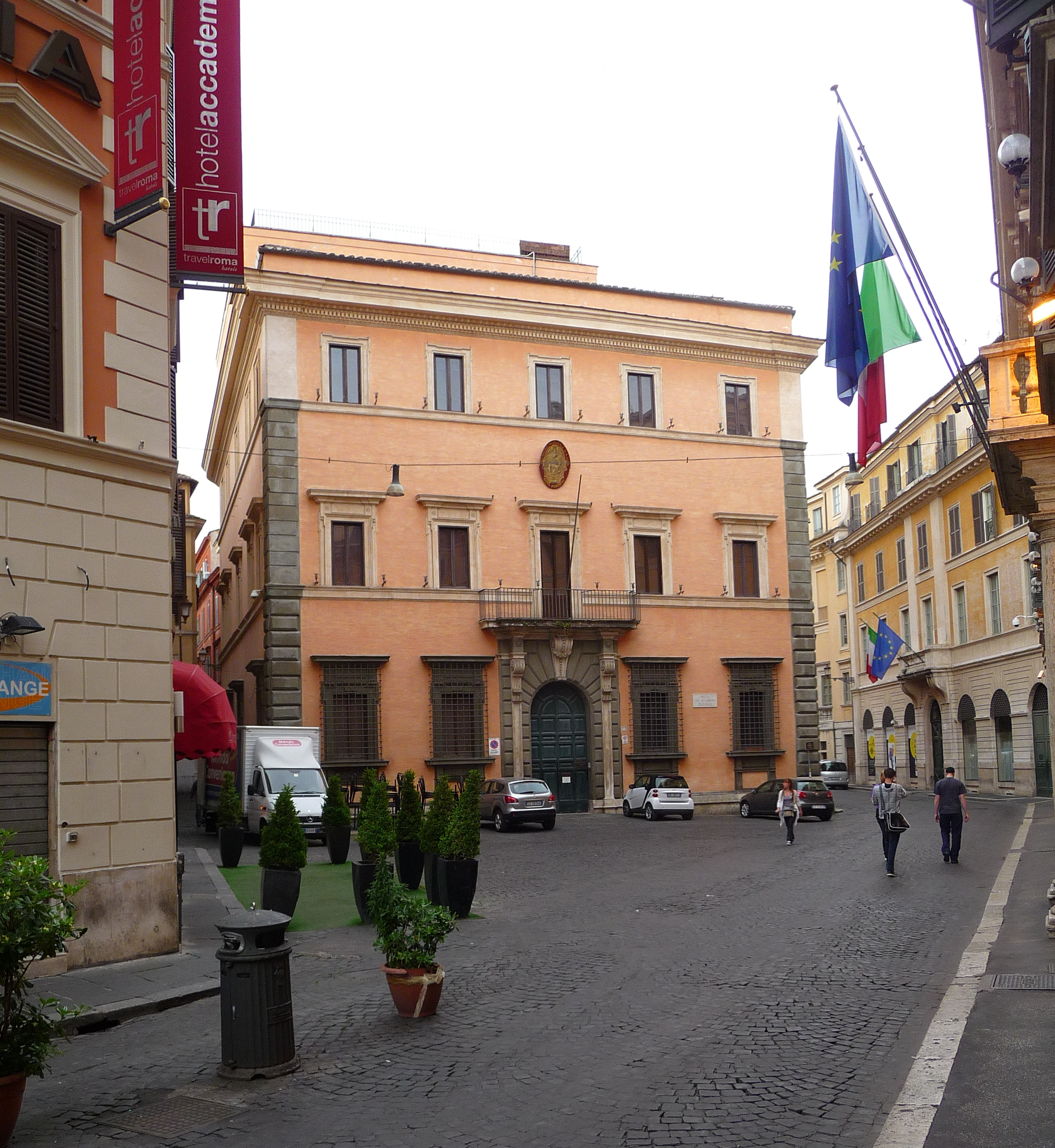 Palazzo Carpegna in Rome, Museum and Accademia Nazionale di S. Luca